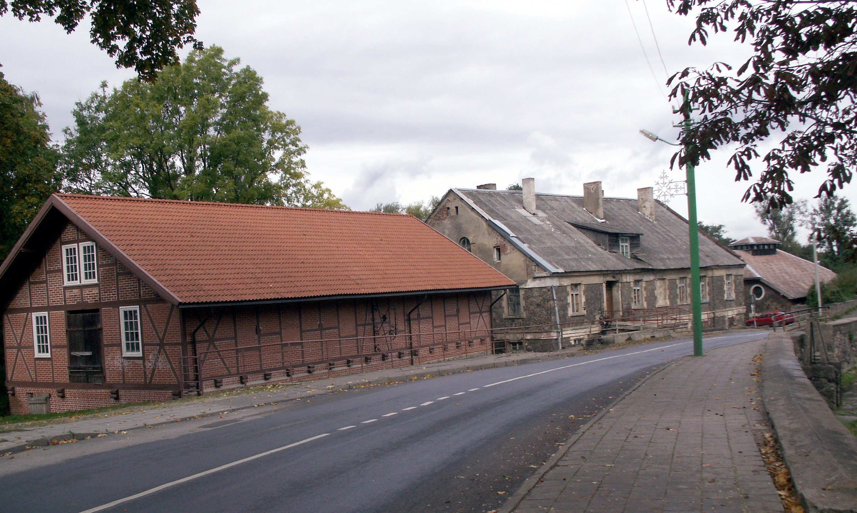 Kretinga Water mill, Lithuania